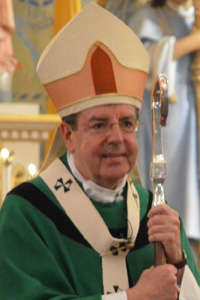 Archbishop Vigneron receiving the gifts during Mass at St. Francis d'Assisi Church in Detroit on October 12, 2014.